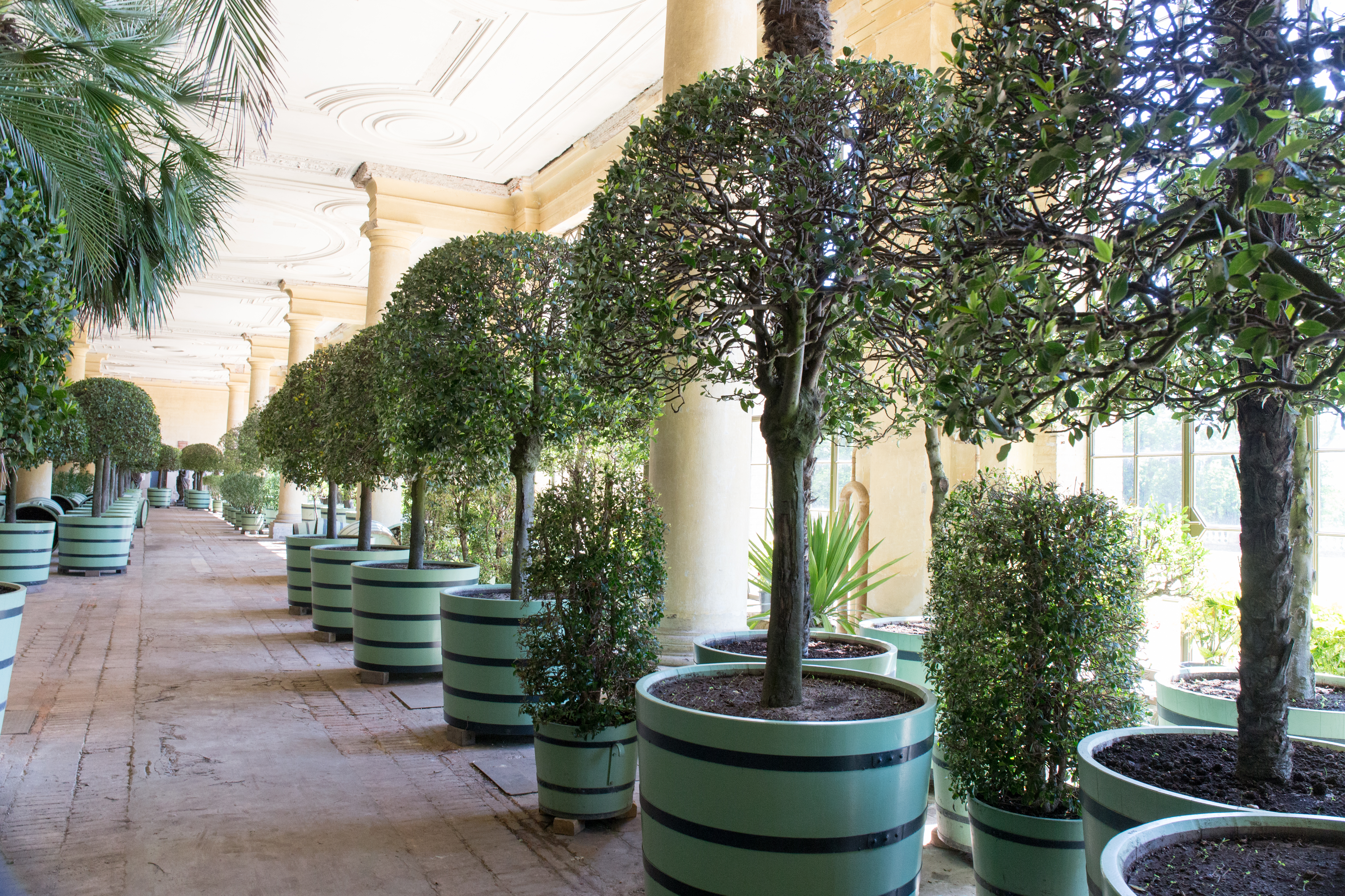 Herausbringen der Pflanzen aus dem Orangerieschloss von Sanssouci im Mai.